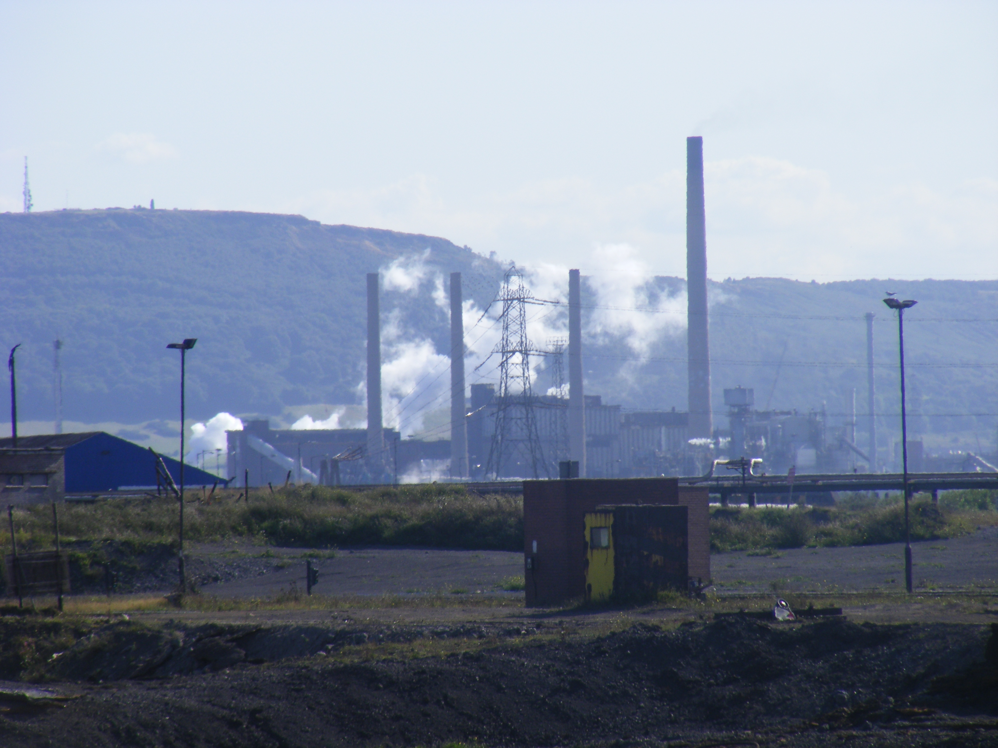 Wilton Power Station near Middlesbrough